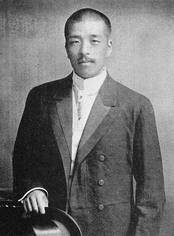 Shigesue Akita